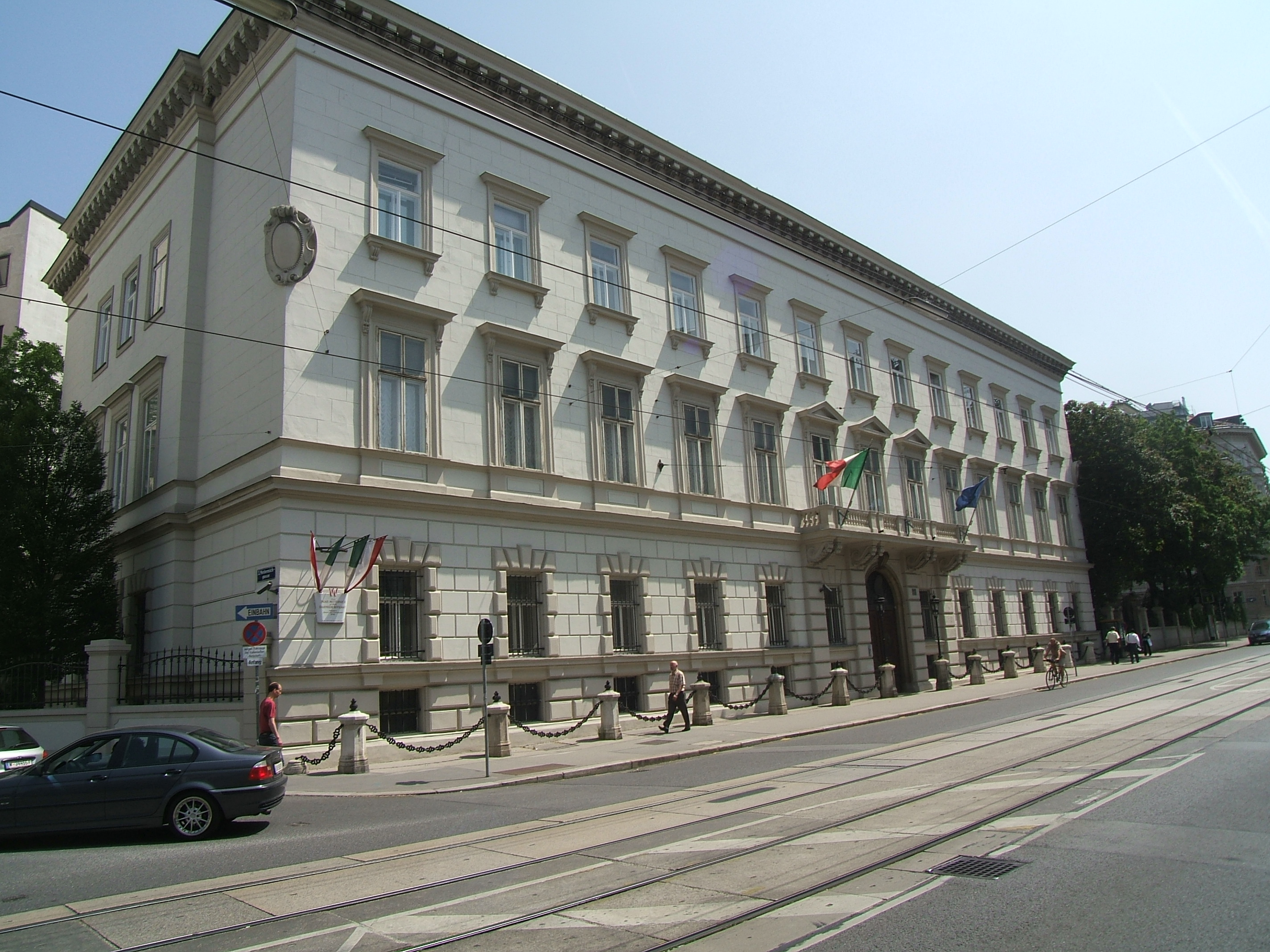 Palais Metternich in Vienna 3rd district, Rennweg 27.